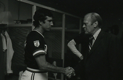 The photo contact sheet, identified as B0656 by the White House Photographic Office (WHPO), is housed at the Gerald R. Ford Presidential Library, a branch of the National Archives and Records Administration (NARA). This file is a 200 dpi photo contact sheet having images from roll of film B0656 of the August 9, 1974 - January 20, 1977 Gerald R. Ford White House Photographic Office Series A0001-A9999 and B0001-B2886 photographs. The date on the photo contact sheet is the date the roll of film was processed, not necessarily the date the photographs were taken. See table below for additional details.